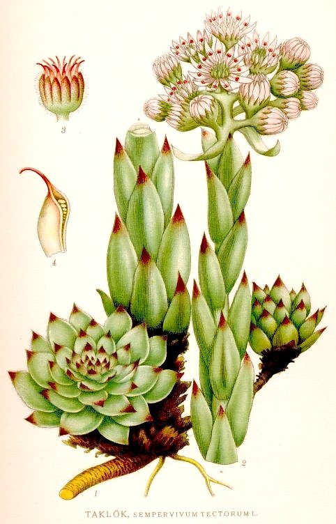 Original Description Taklök, Sempervivum tectorum L.